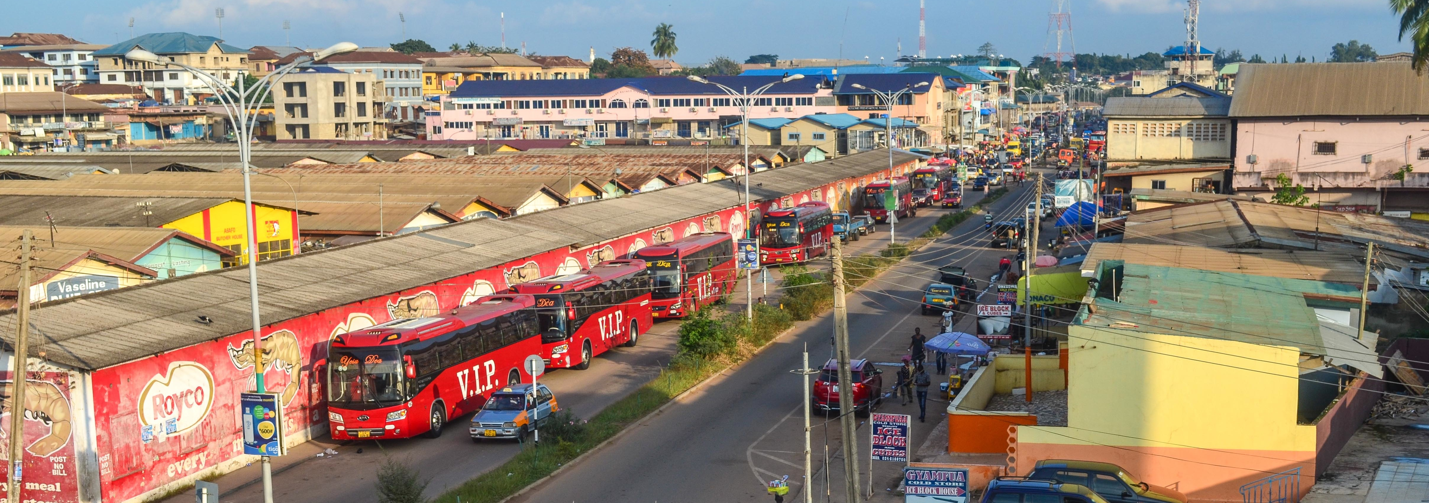 Panorama: Bus Rapid Transit (V.I.P Bus Service) Bus-Based Mass Transit System in Kumasi, Ashanti Region, Ghana.